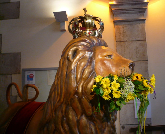 Lleó de Barcelona (lion of Barcelona)